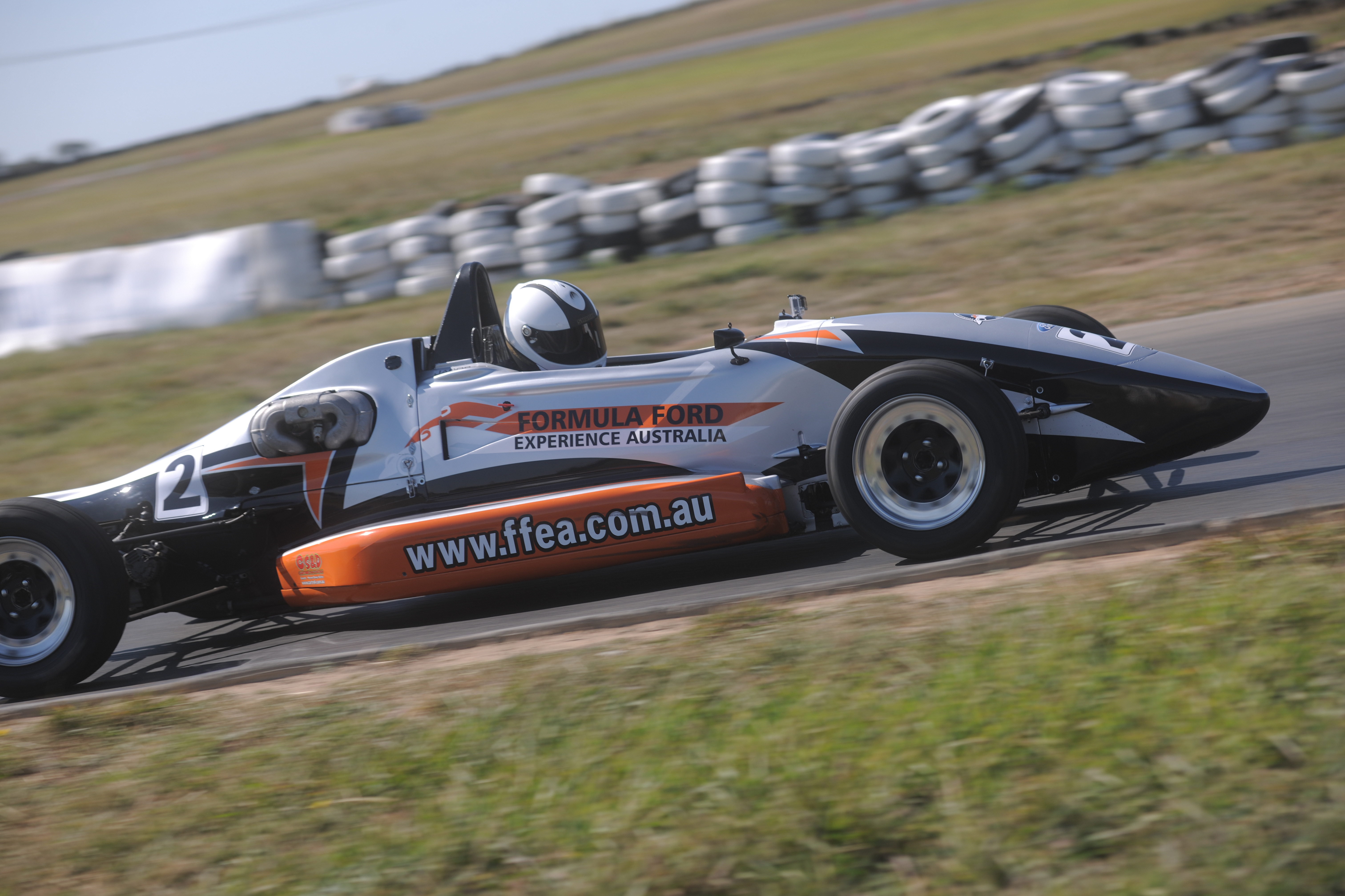 Formula Ford Experience Australia's Formula Ford race car